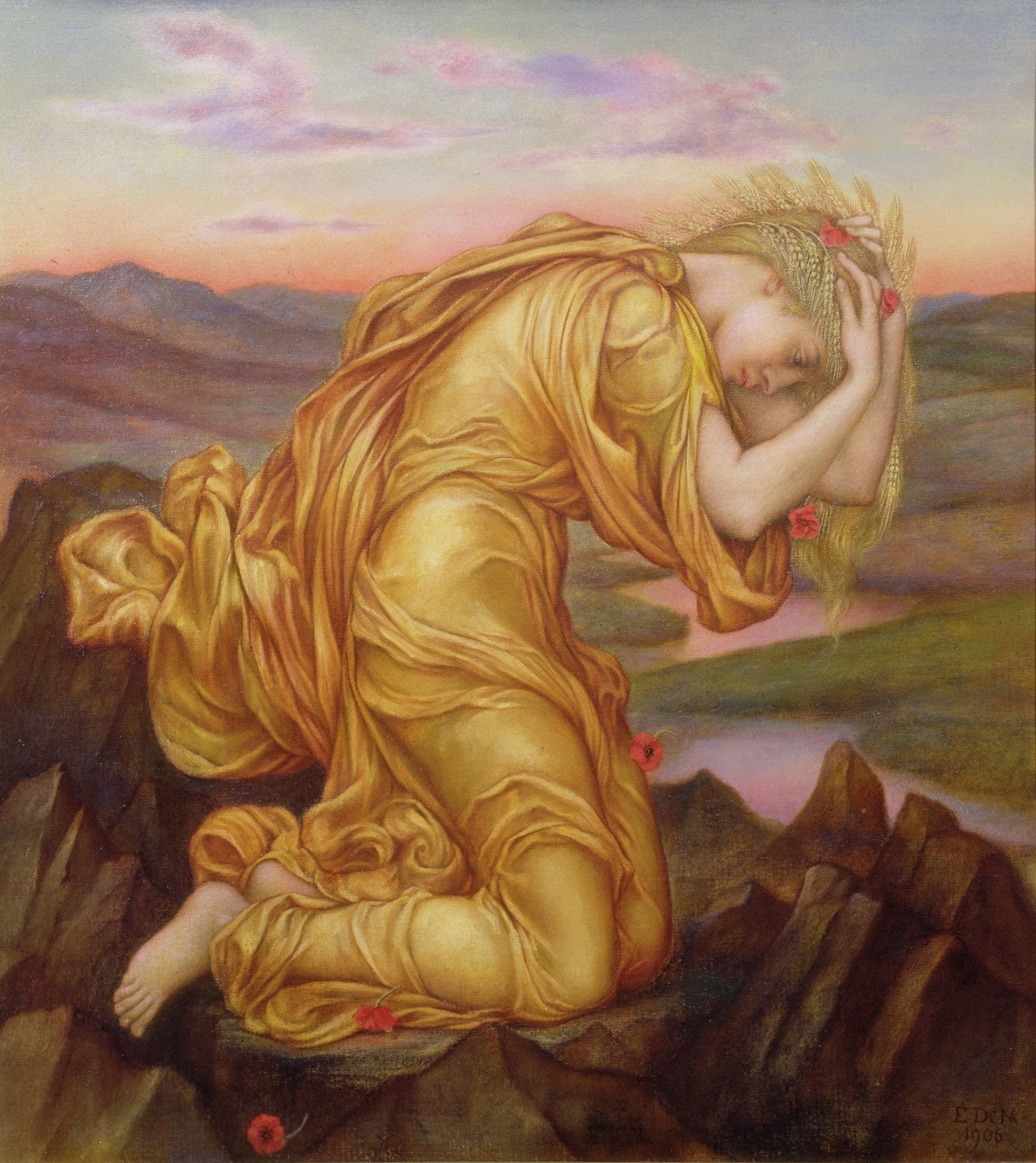 Demeter mourning Persephone (Evelyn de Morgan, 1906)